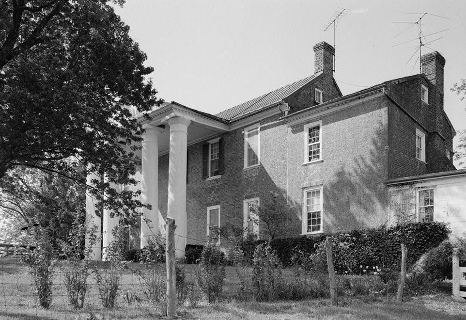 Thorn Hill, Southwest of Lexington, off VA Route 251, Lexington vicinity (Rockbridge County, Virginia) cropped, HABS VA,82-LEX.V,5-1 This file comes from the Historic American Buildings Survey (HABS), Historic American Engineering Record (HAER) or Historic American Landscapes Survey (HALS). These are programs of the National Park Service established for the purpose of documenting historic places. Records consist of measured drawings, archival photographs, and written reports. When reusing please credit: Library of Congress, Prints & Photographs Division, VA-1209 This tag does not indicate the copyright status of the attached work. A normal copyright tag is still required. See Commons:Licensing. This work is in the public domain in the United States because it is a work prepared by an officer or employee of the United States Government as part of that person’s official duties under the terms of Title 17, Chapter 1, Section 105 of the US Code. Note: This only applies to original works of the Federal Government and not to the work of any individual U.S. state, territory, commonwealth, county, municipality, or any other subdivision. This template also does not apply to postage stamp designs published by the United States Postal Service since 1978. (See § 313.6(C)(1) of Compendium of U.S. Copyright Office Practices). It also does not apply to certain US coins; see The US Mint Terms of Use. This file has been identified as being free of known restrictions under copyright law, including all related and neighboring rights.